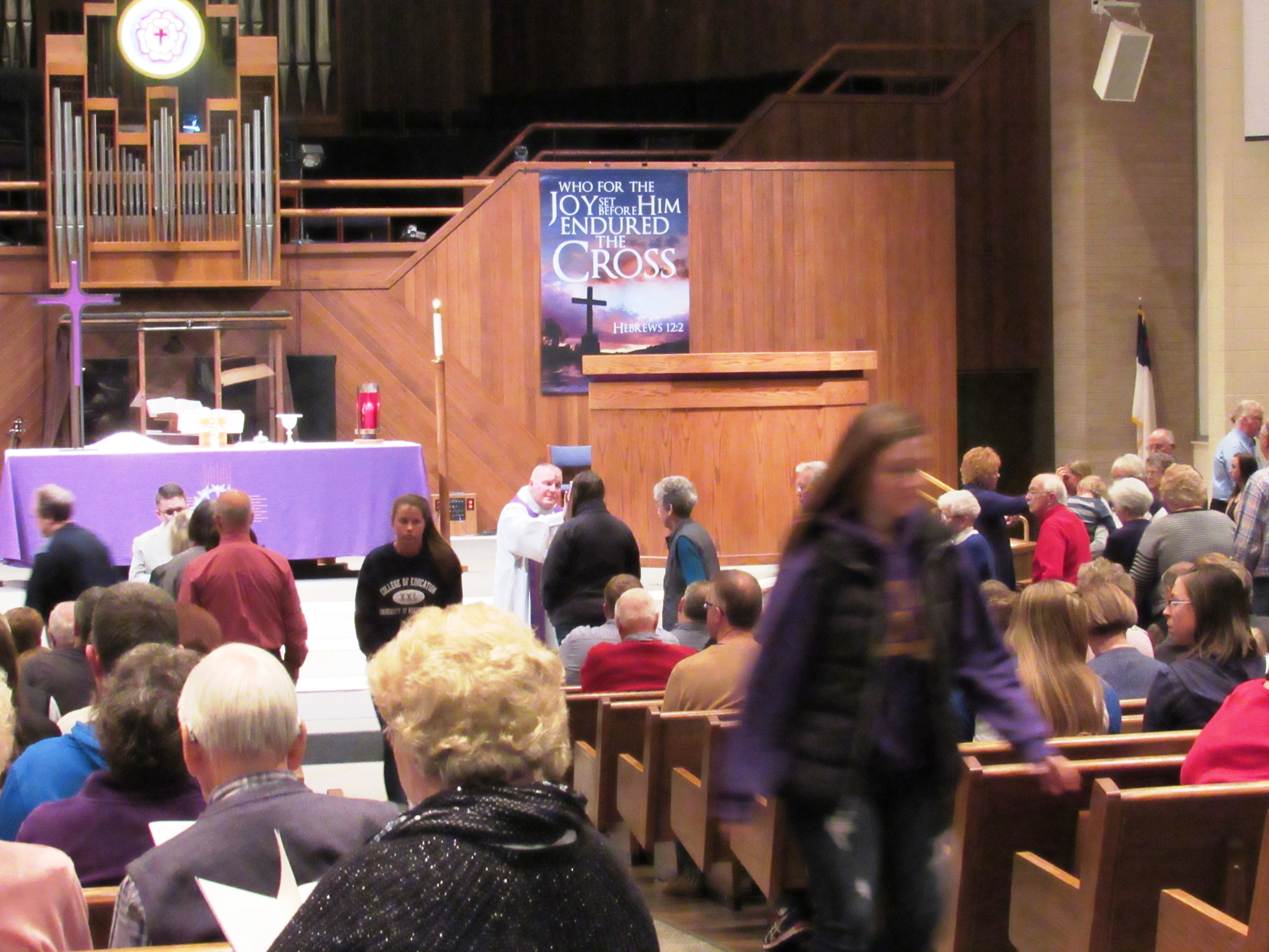 Pastor Brian King distributing ashes to a Lutheran communicant in Cedar Falls, Iowa during the Mass on Ash Wednesday.